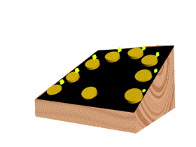 A diagram of the reaction time box used by Arthur Jensen